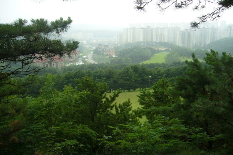 Tancheon,Dankook University background 'Beobhwa' mountain (385m) mountain, the near Hansung golf club of Yongin